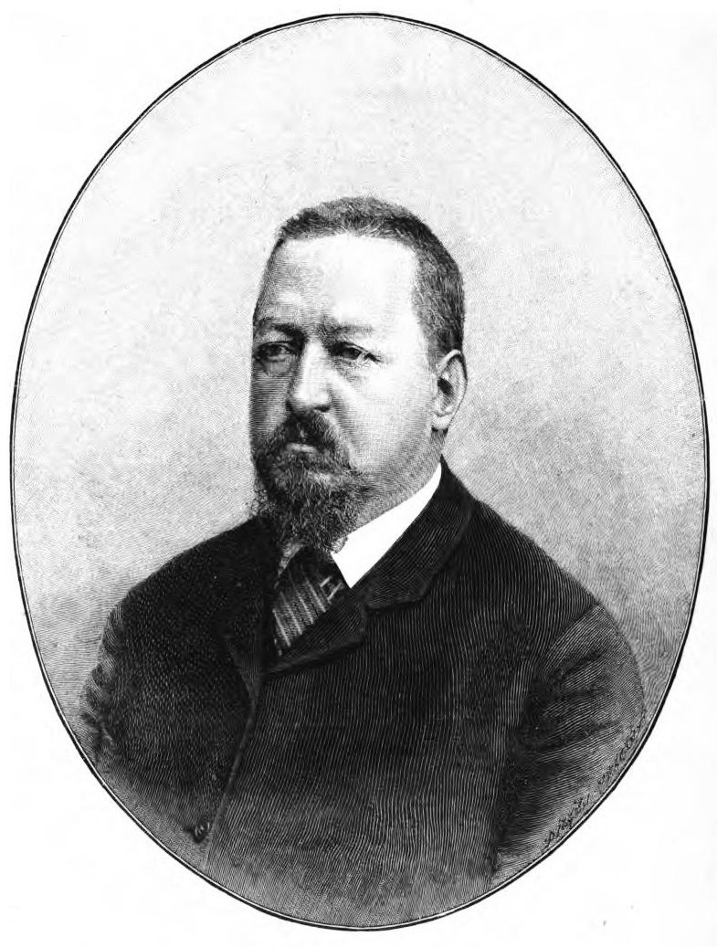 A.Skabichevsky